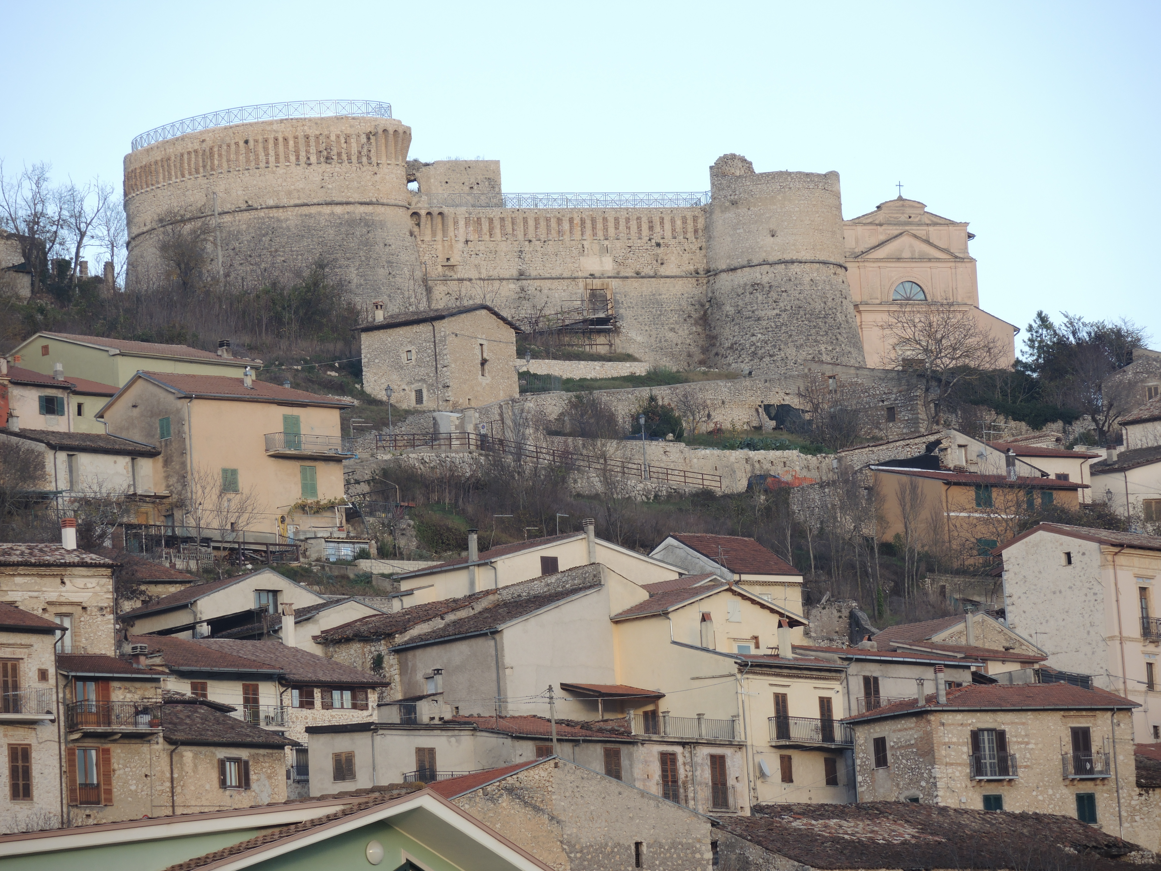 Orsini castle in Scurcola Marsicana, Abruzzo, Italy